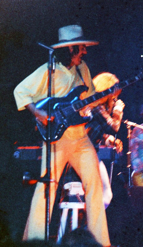 Bassist Jeffrey Hammond from Jethro Tull - September, 1973 Chicago Stadium - the "Passion Play" tour